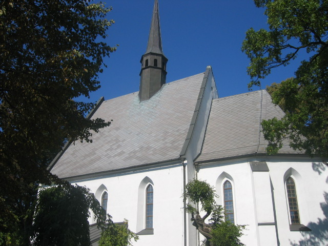 Church of St Michael in Polička (Czech Republic, Pardubice Region)